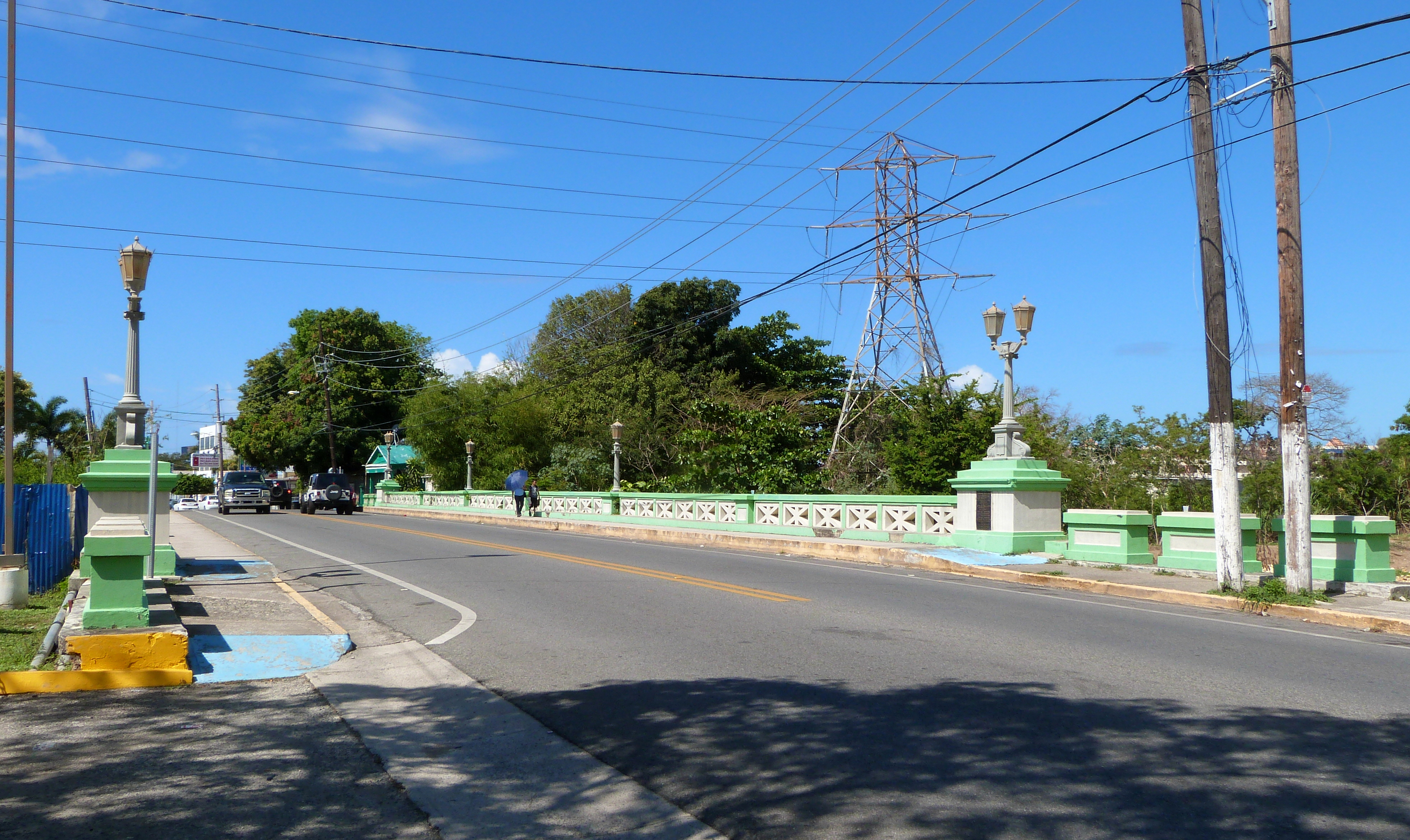 The historic Puente Río Portugués (built 1933), spanning the historic channel of the Portugués River on Puerto Rico Highway 123 (Avenida Eugenio María de Hostos) at km 3.5 in Ponce, Puerto Rico, is listed on the U.S. National Register of Historic Places.